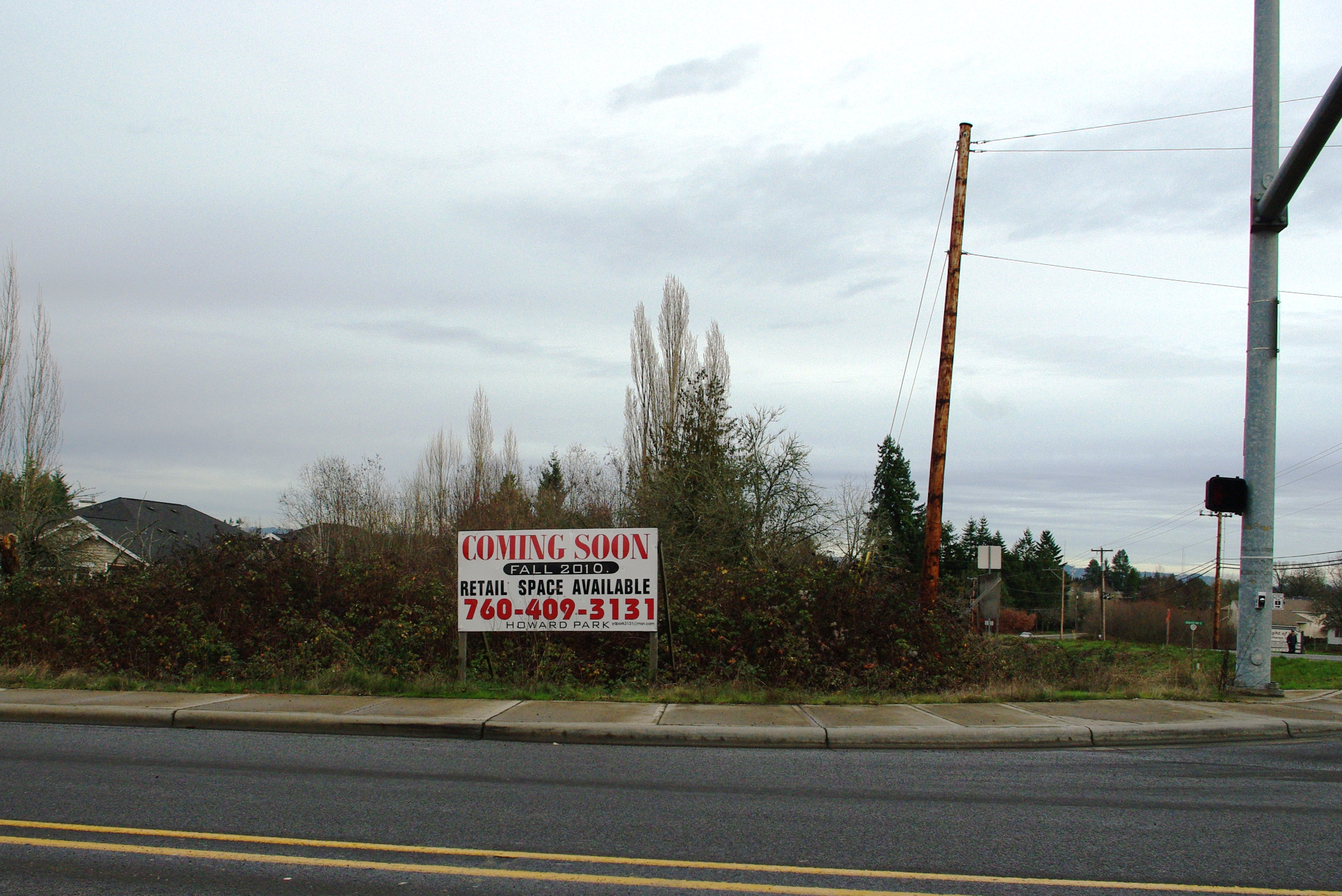 Location of now removed Hazeldale Store on Oregon 10 west of Beaverton and south of Aloha.